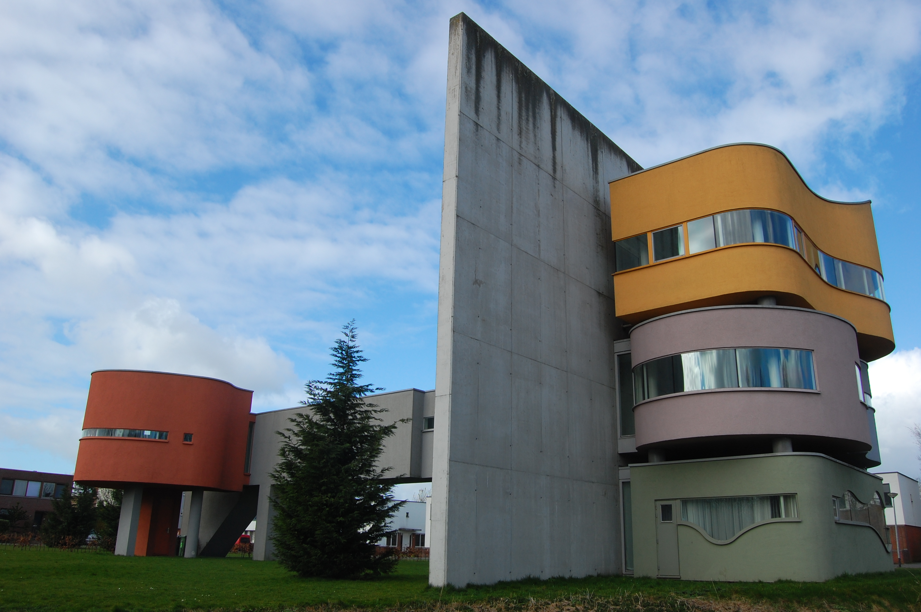 Wall House 2, originally designed by John Hejduk in the 1970s. Build in 2001 in the city of Groningen, the Netherlands